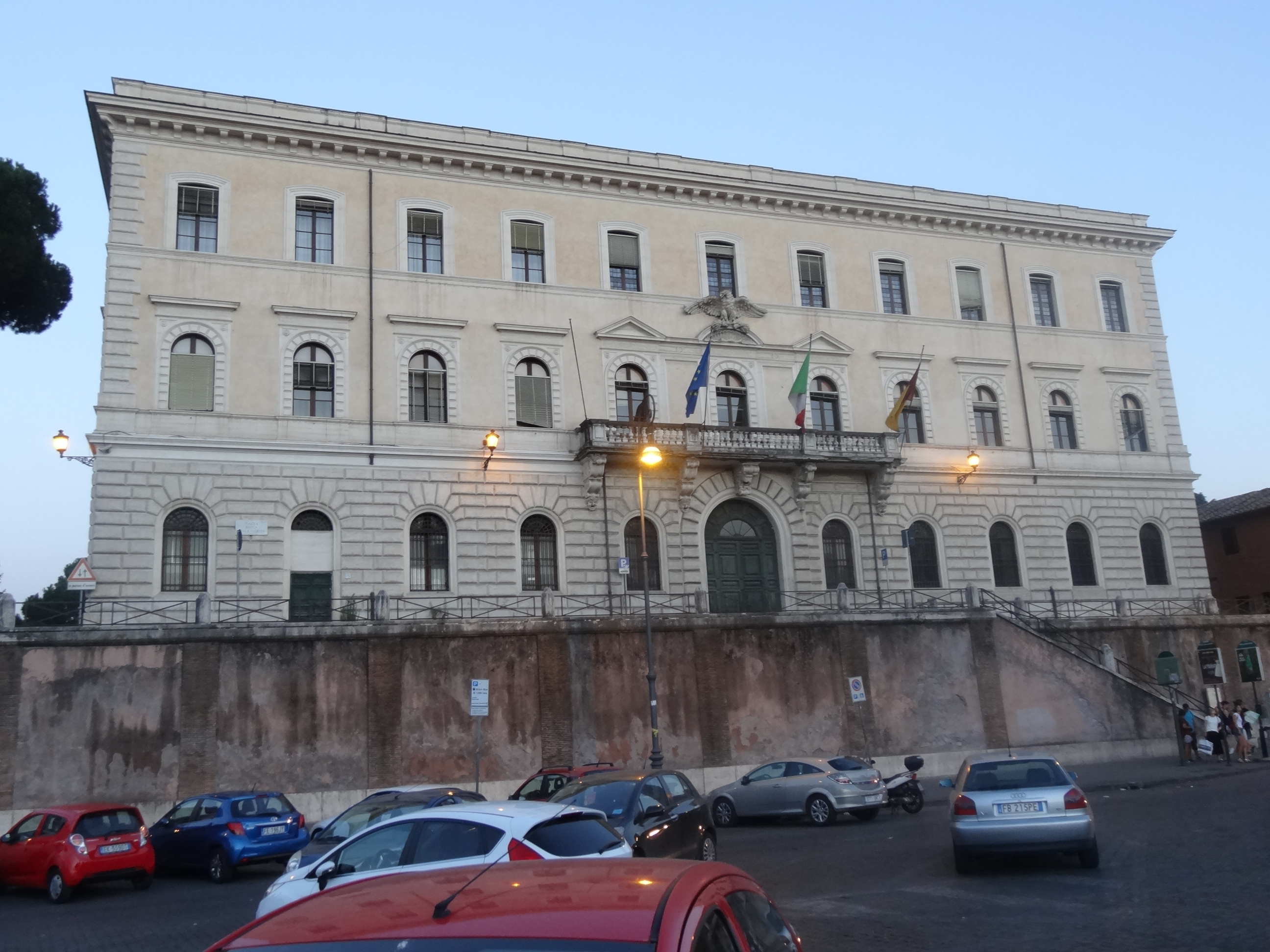 Pastificio Pantanella